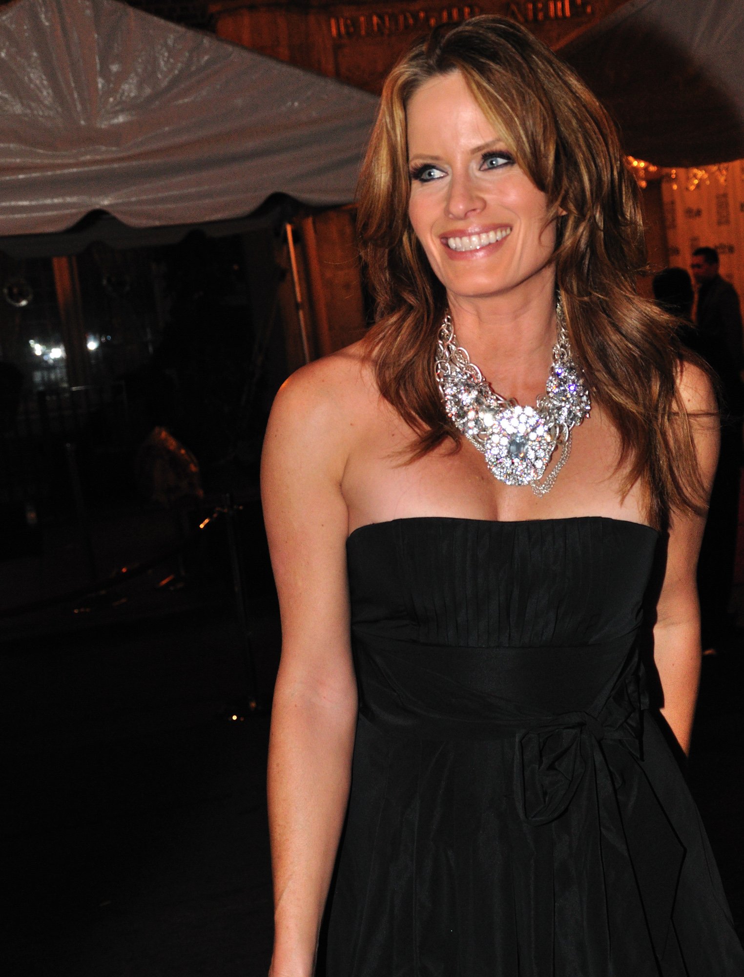 Model Monika Schnarre at a party during the 2010 Toronto International Film Festival